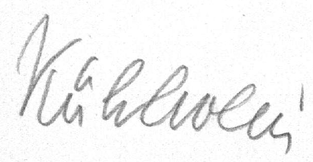 Signature of Oberst Friedrich Kühlwein, 29.11.1892-25.9.1972, in June 1941 commander of I.R. 133 (45th Infantery Division)